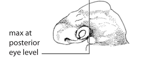 Standard Event System character depiction